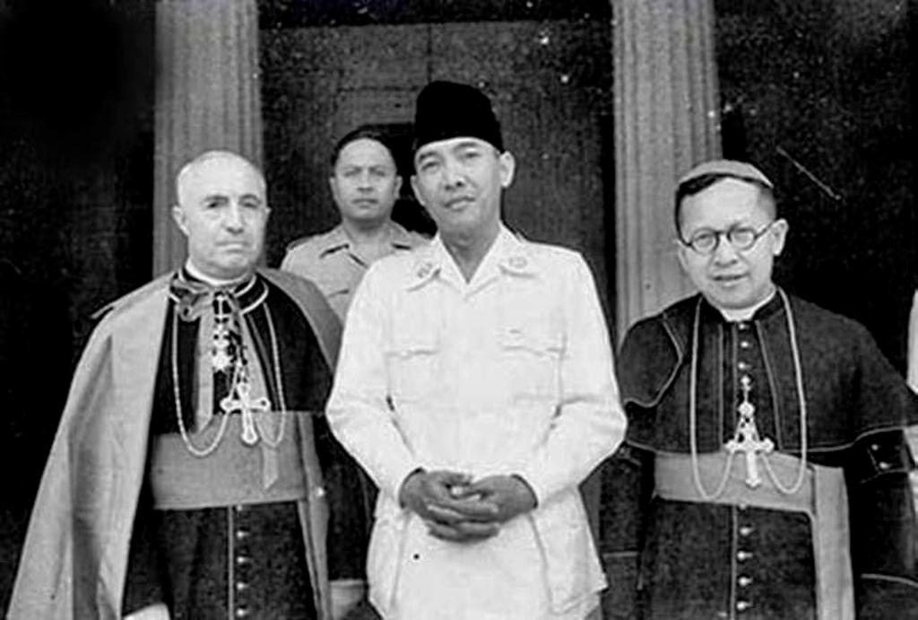 Indonesian President Sukarno with Albertus Soegijapranata and Georges-Marie-Joseph-Hubert-Ghislain de Jonghe d’Ardoye